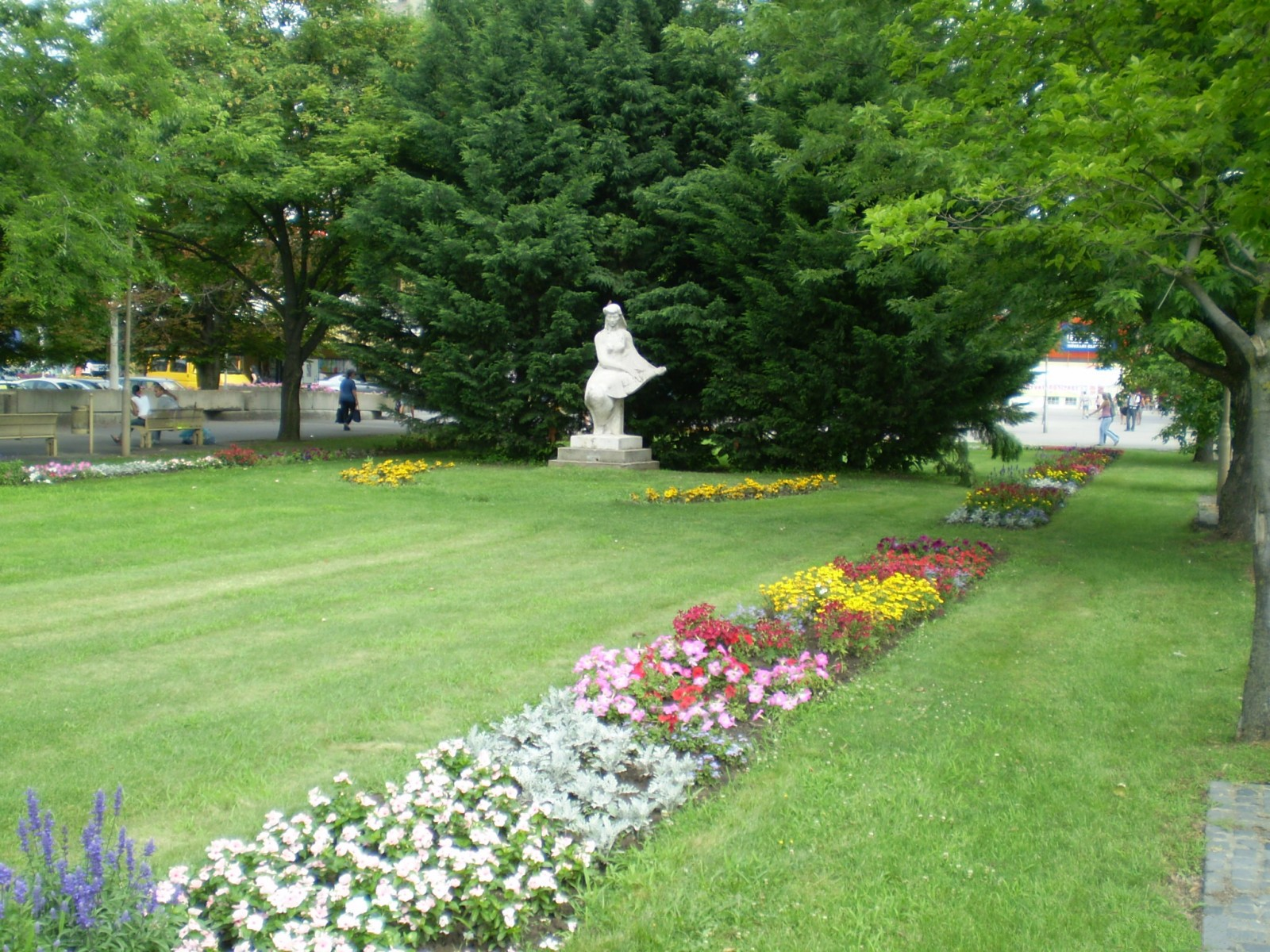 Musical Women